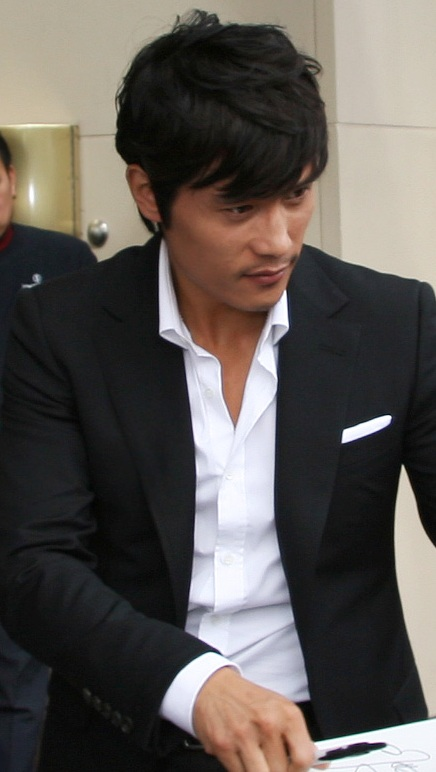 Lee Byung-hun at the 2008 Toronto International Film Festival